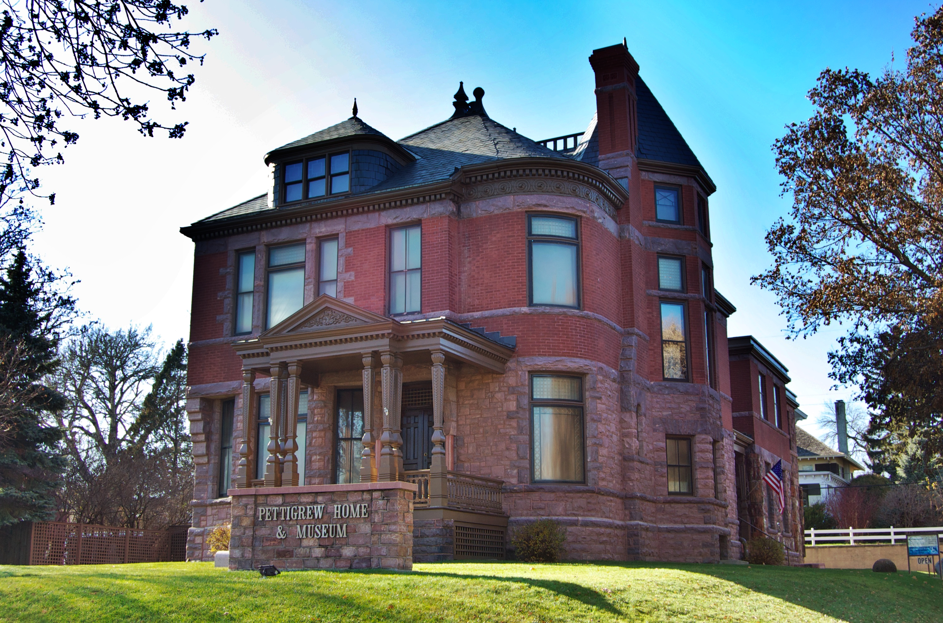 Home of Richard F. Pettigrew, the first-ever U.S. Senator elected from South Dakota, in Sioux Falls, South Dakota, United States. Currently a museum.